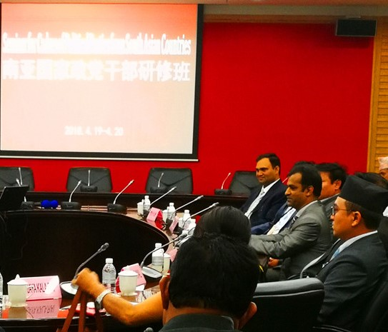 Seminar